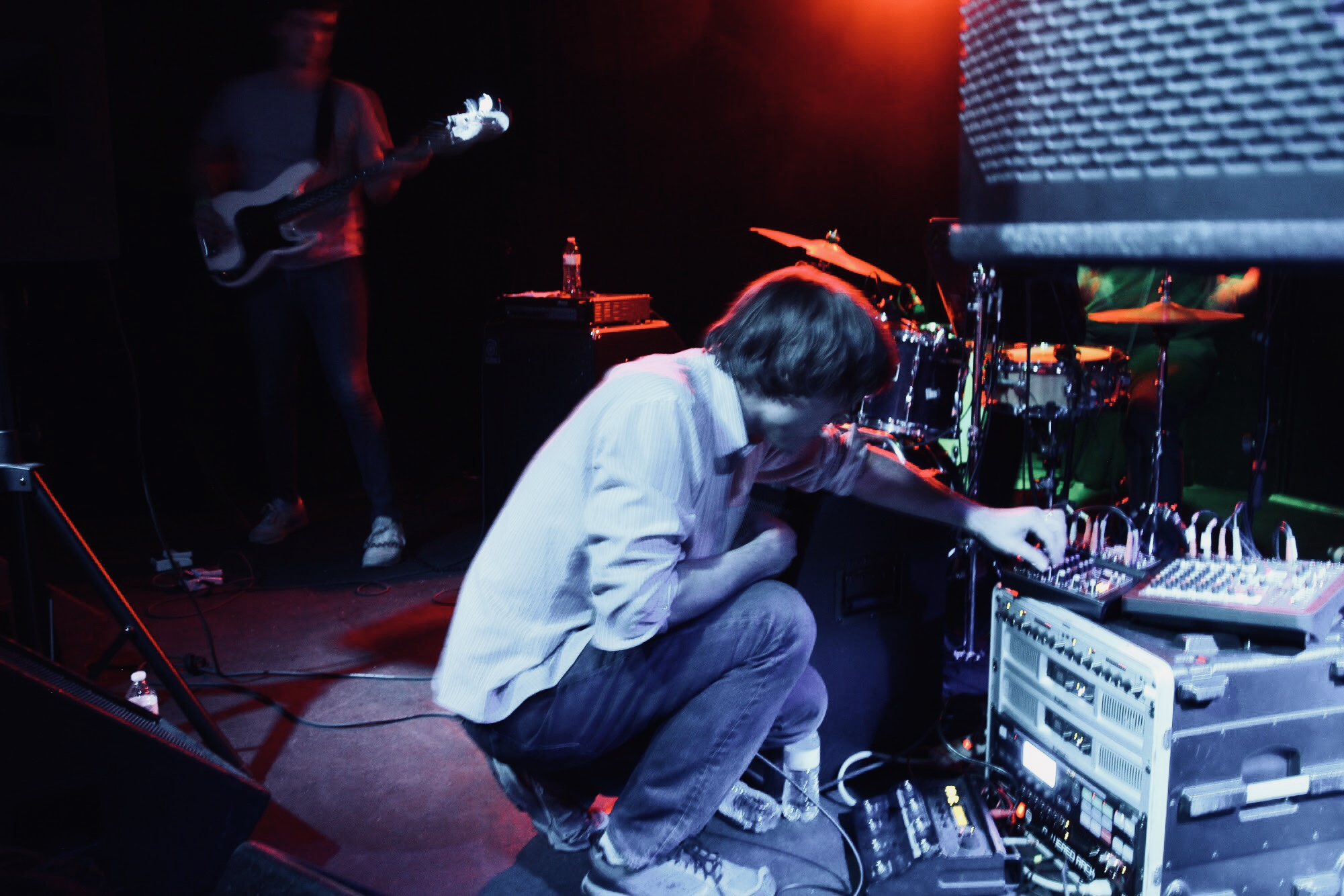 John Maus ::: Marquis Theater ::: 01.19.18